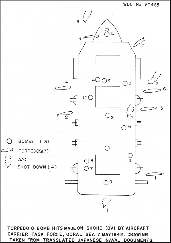 Diagram of damage inflicted on Japanese aircraft carrier Shoho by American carrier air attack during the Battle of the Coral Sea on May 7, 1942.